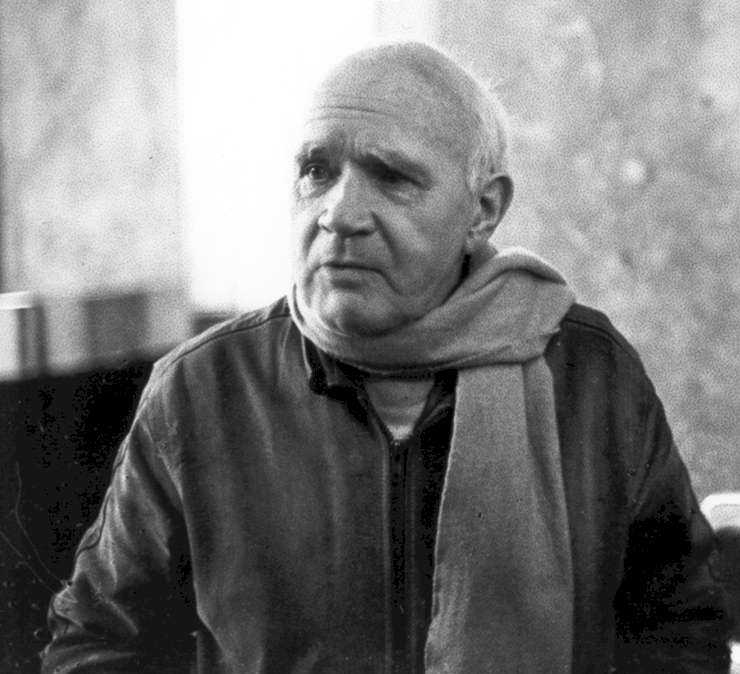 Dr. Hans Koechler, President of the I.P.O., mright, receiving French author Jean Genet at the Imperial Hotel in Vienna (19 December 1983) in connection with a lecture organized by the International Progress OrganizationPhoto has been cropped to just Jean Genet